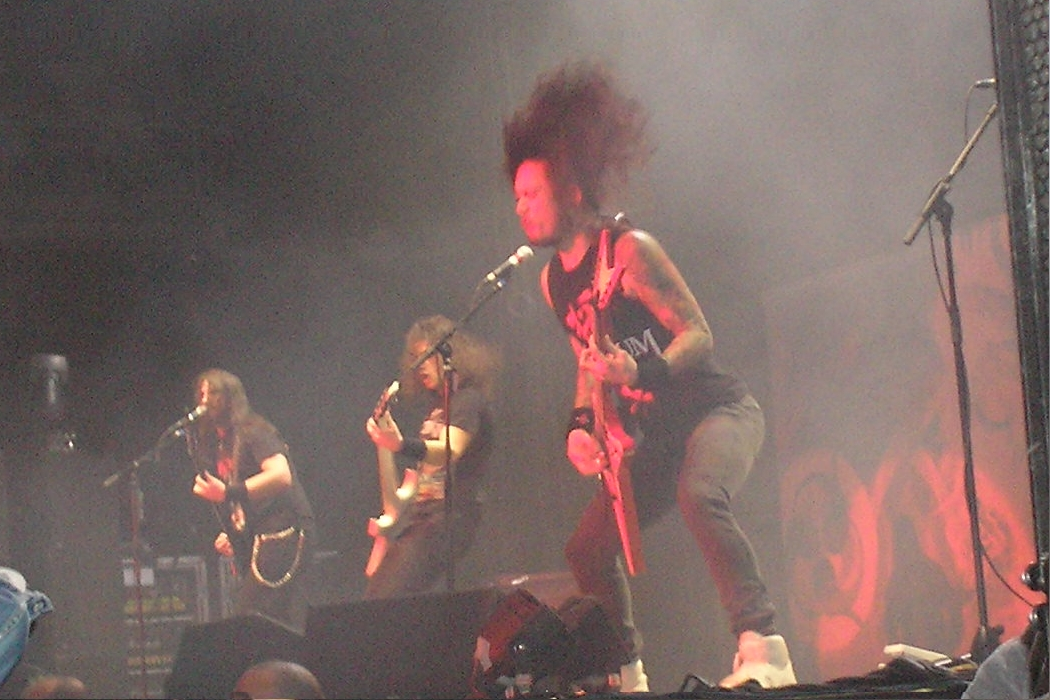 Trivium on the Unholy Alliance Tour